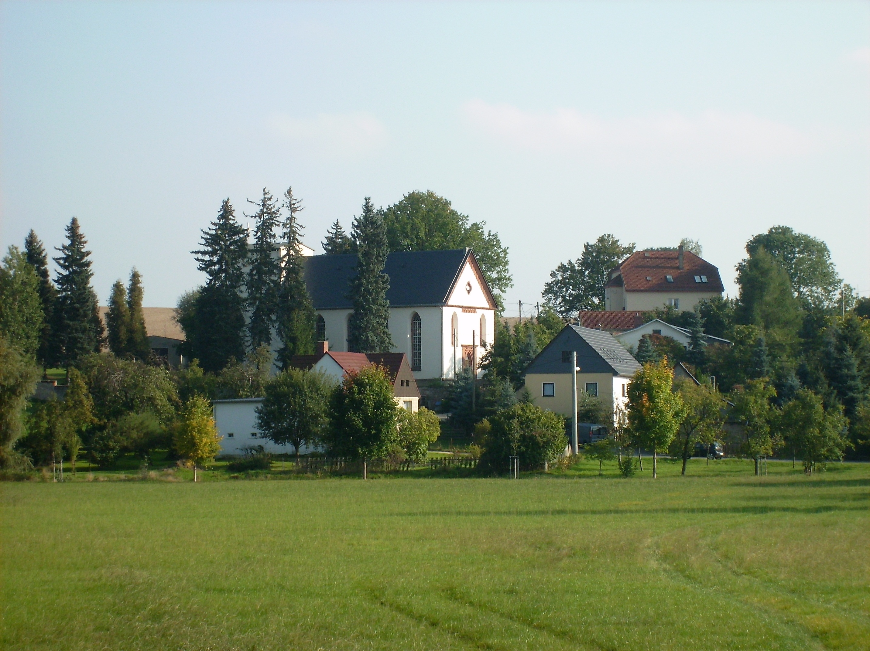 View of the village of Niederwiera (Oberwiera, Zwickau district, Saxony) with the classical church